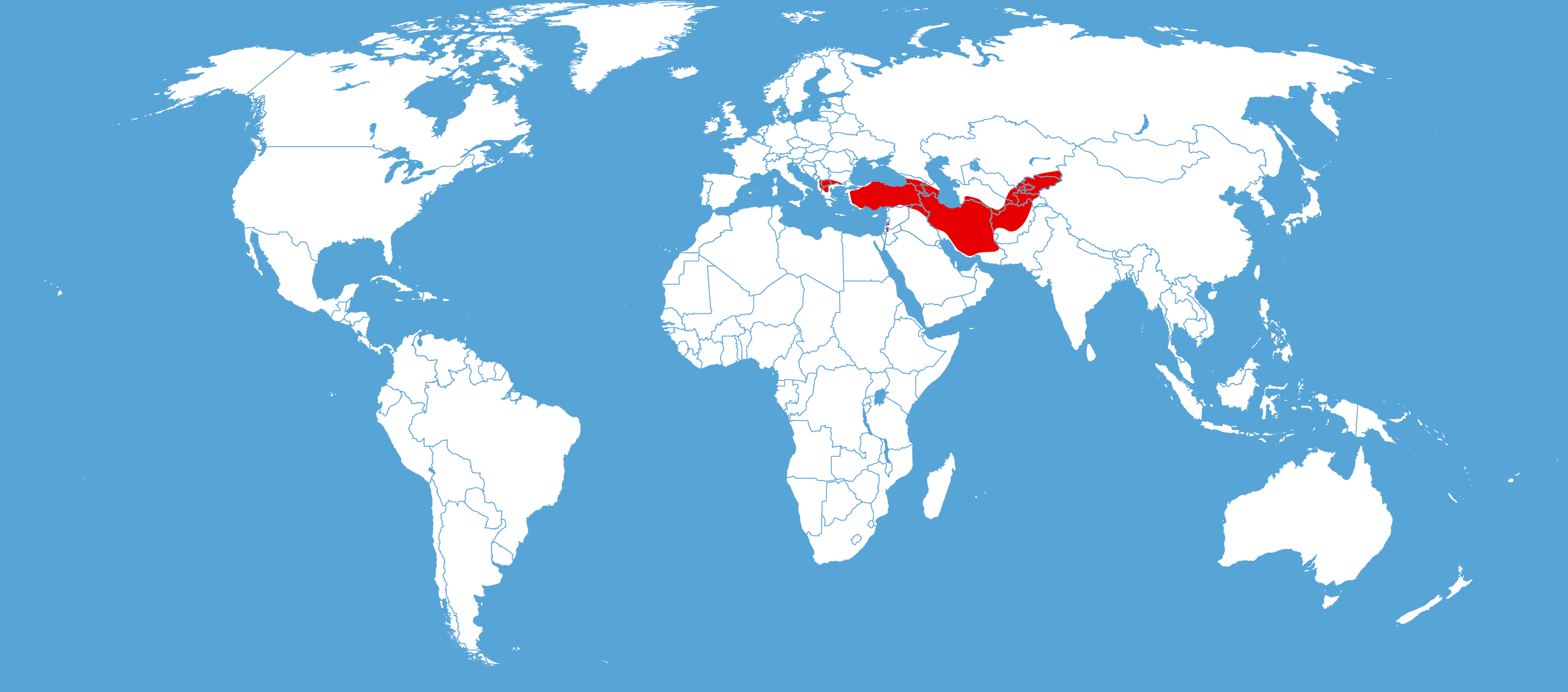 Distribution map of Rethera komarovi